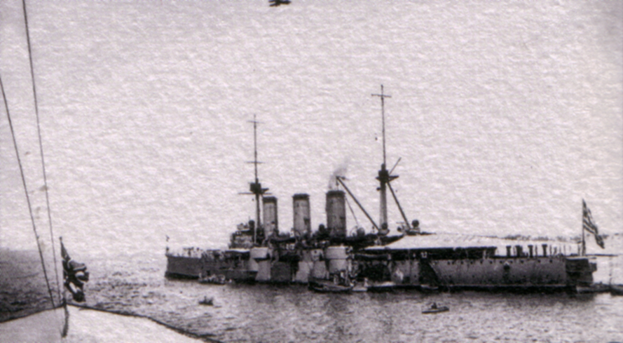 Greek battlecruiser Averof photographed from a British warship (as seen from the Jack at the down left corner) during WW I